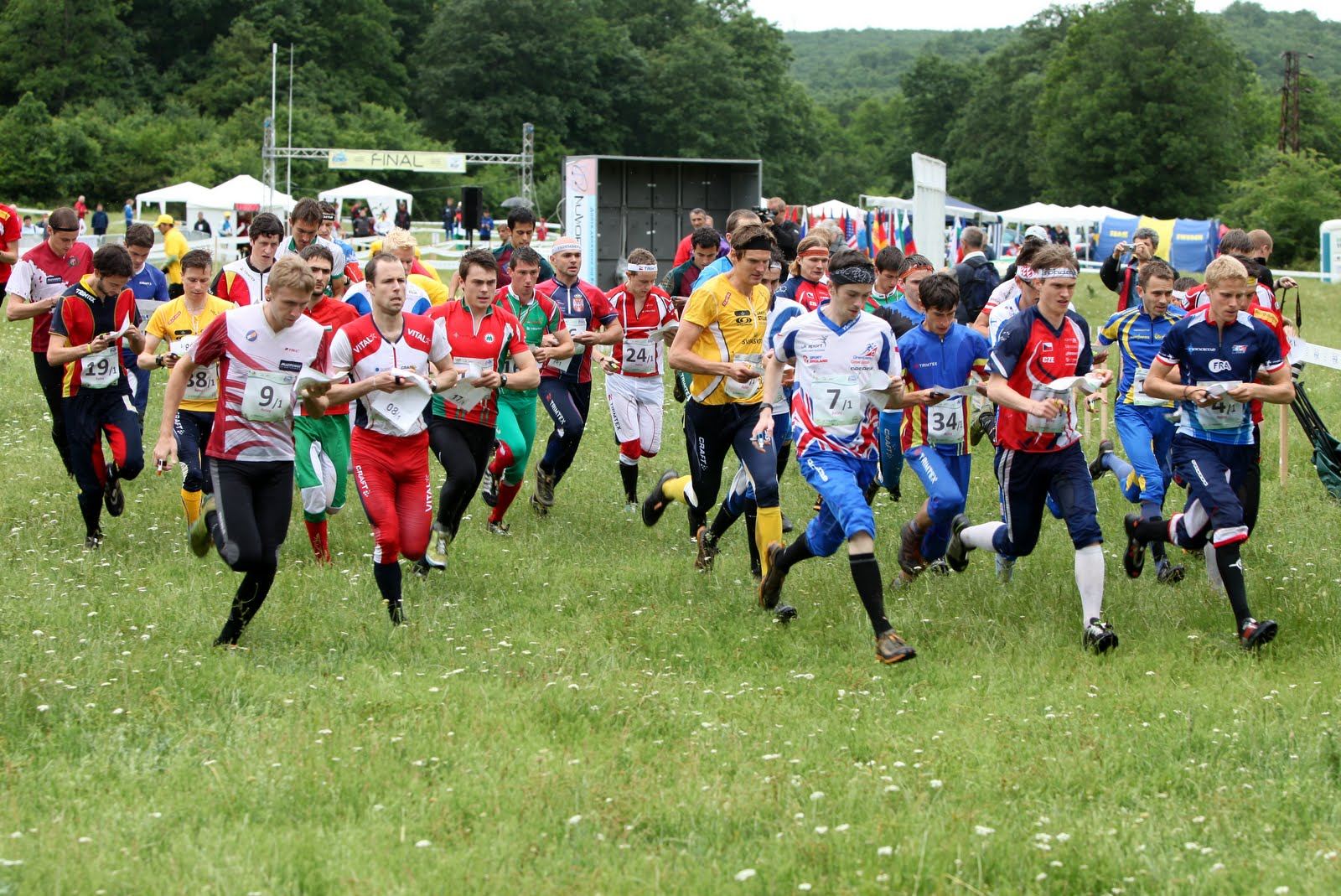 Start man relay at European Orienteering Championships 2010